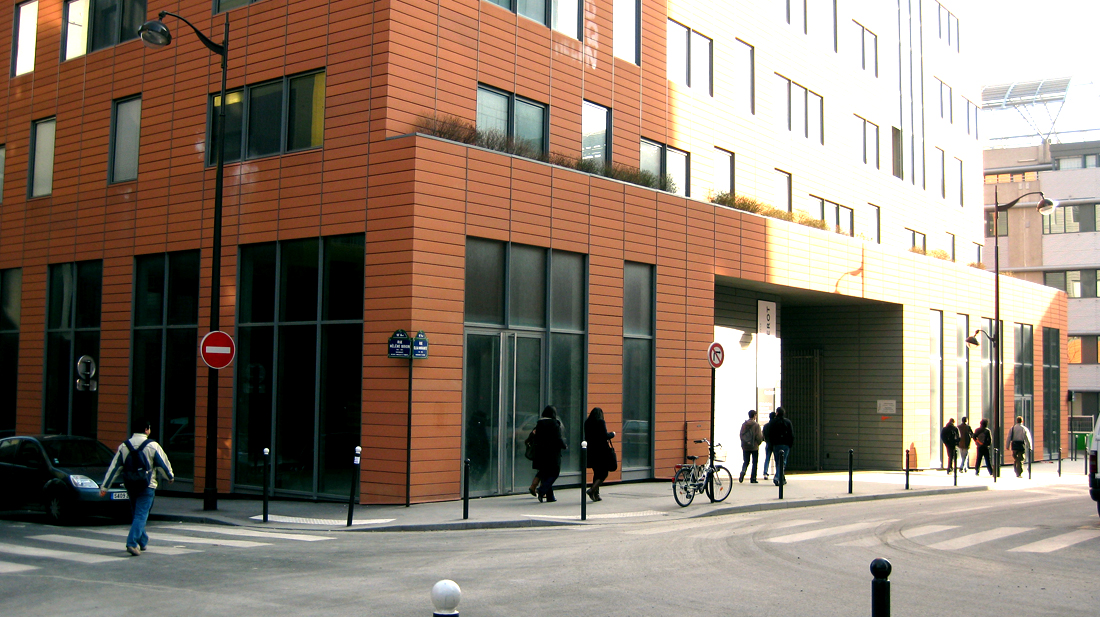 Condorcet building in the 13th arrondissement of Paris, Paris Rive Gauche. Headquarter of the Department of Physics at the University Paris 7 - Denis Diderot.